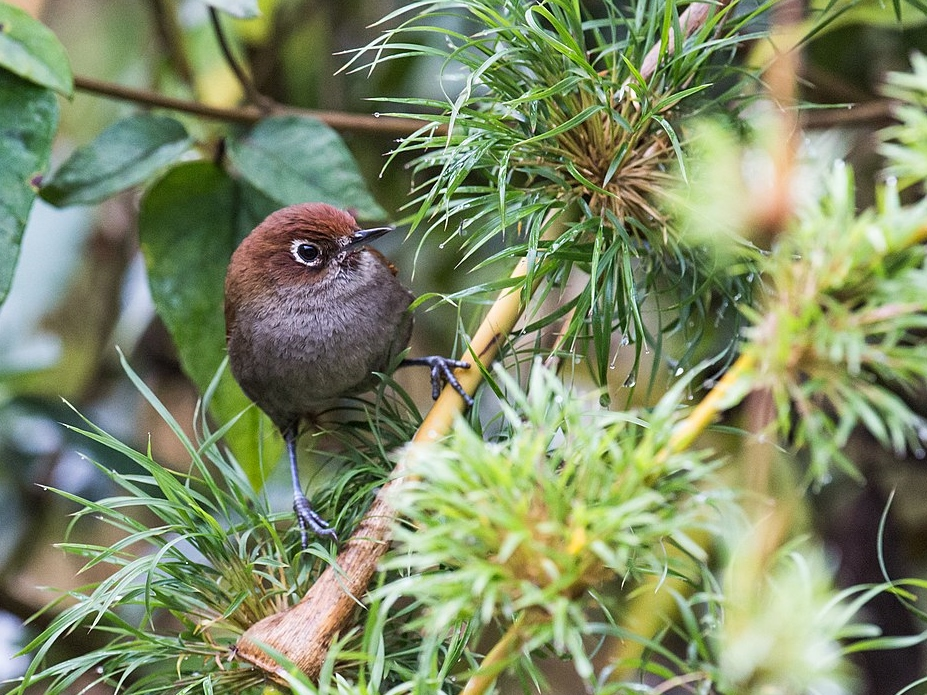 Eye-ringed Thistletail from Puente Carrizales, along the Satipo road in Junín Region, Peru.